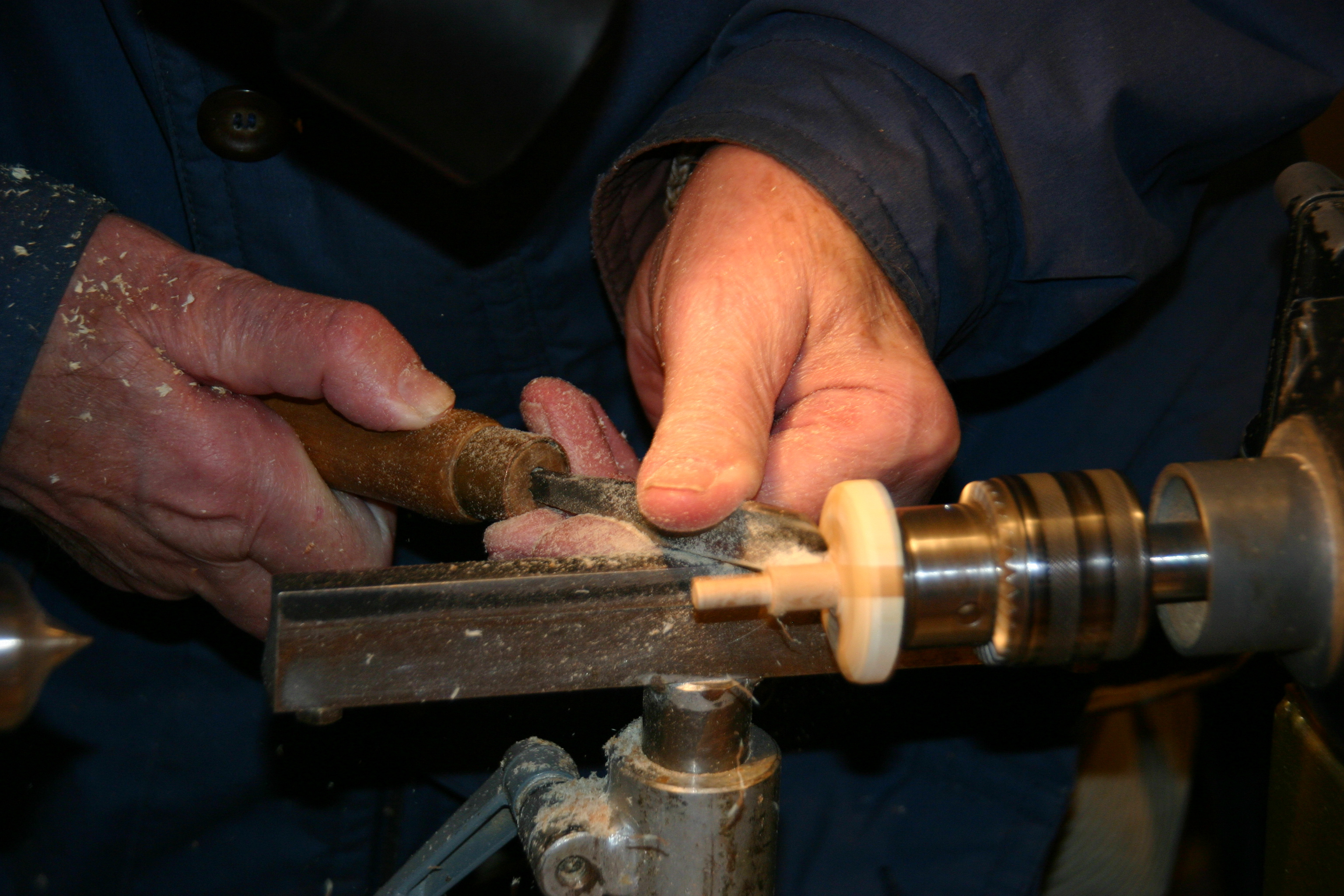 German woodturner. Travelling equipment at Christmas market in Hauenstein. Turning a spinning top.